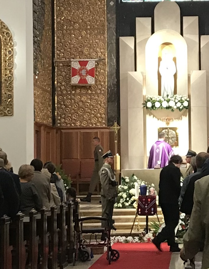 The funeral mass in the Field Cathedral of the Polish Army